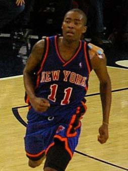 This file has been extracted from another file: Another Monta Drive.jpg